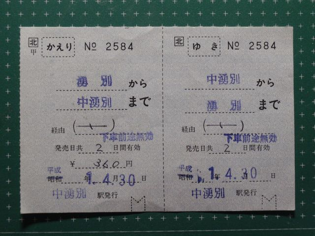 Supplement two-way ticket from Naka-Yubetsu to Yubetsu